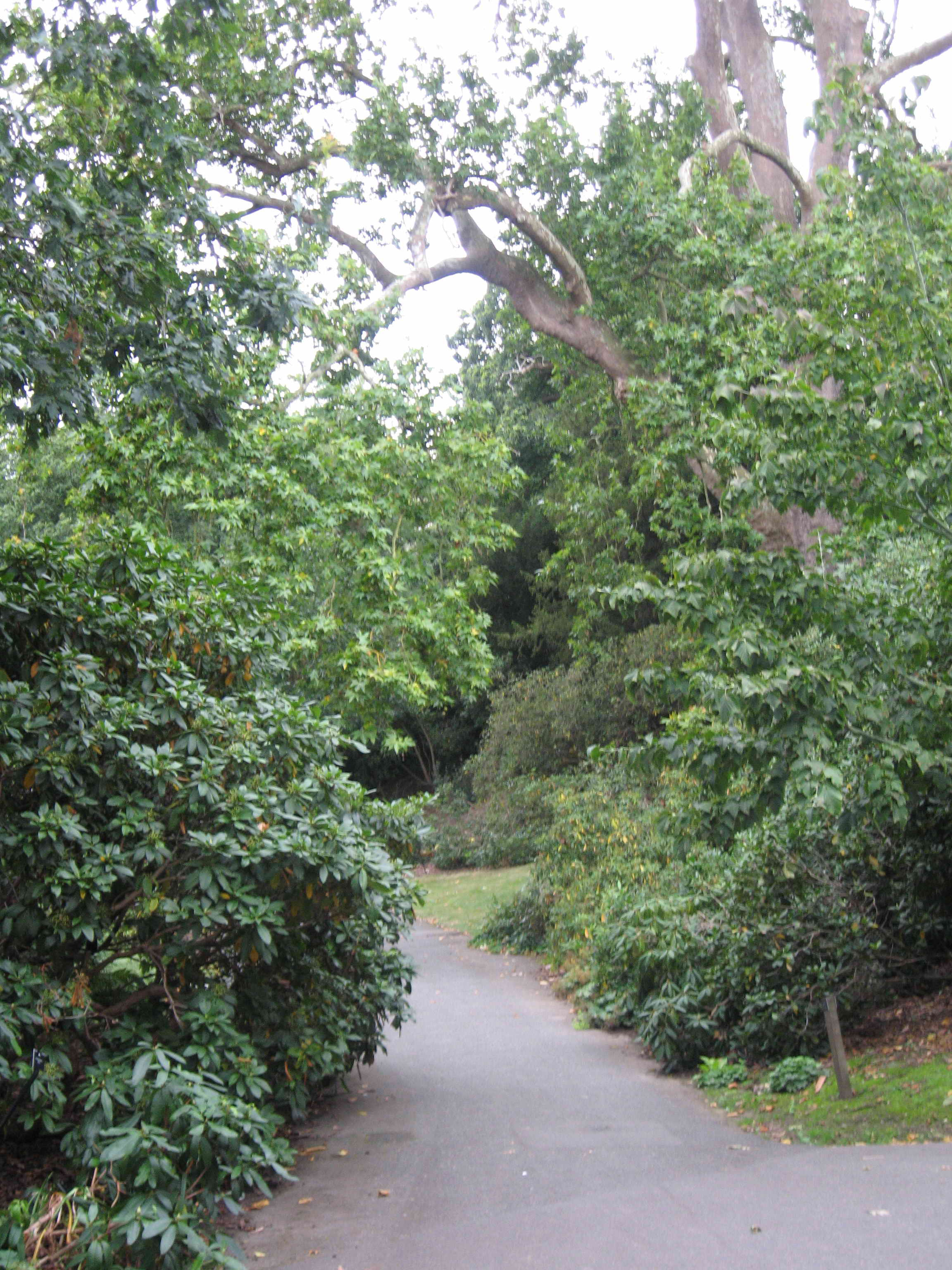 Kew Rhododendron promenade